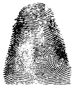 Right thumb fingerprint of Francisca Rojas